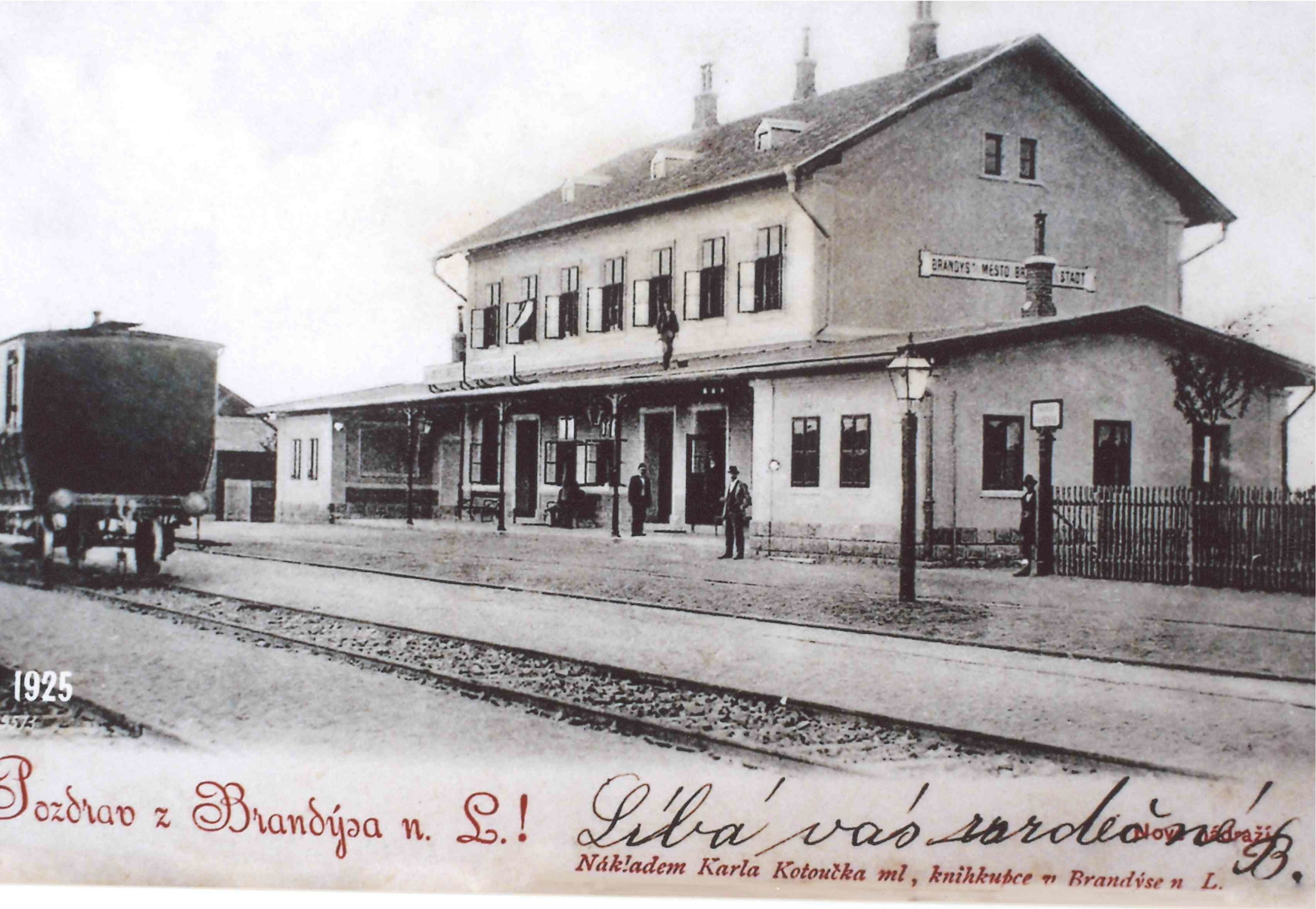 Brandys nad Labem - postcard from 1925